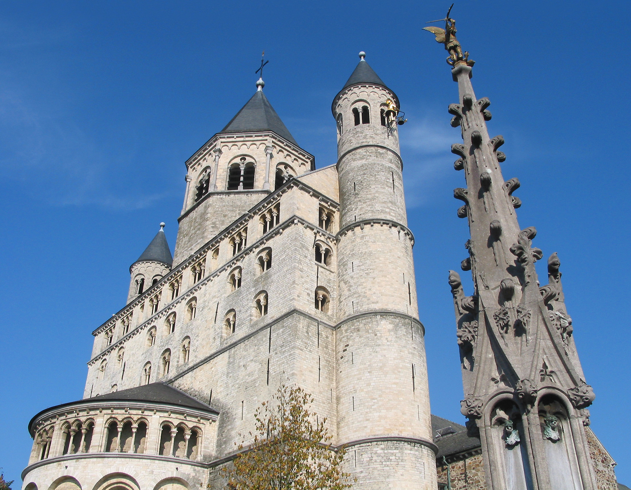 Nivelles (Belgium), the St. Gertrude Collegiate (XI/XIIIth century) and her restored fore-part (XXth century) - Pinnacle of the fountain du Perron replica 1922). Walon: Nivèle (Bèljike), li coléjiale Sint Djèrtrûde (XI/XIIIin.me sièkes) èt si avant-cwârps rimètu a noû au (XXin.me sièke) – Copète è tayée pîre dol rèplike dol fontin.ne do Pèron (1922).